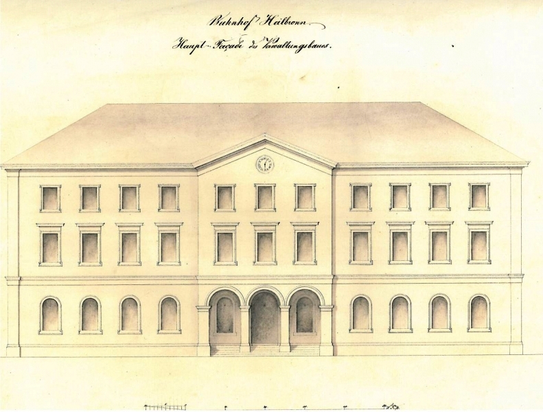 Heilbronn,_Alter_Bahnhof,_1848/49 von Karl von Etzel erbaut, Aufriss von Fuchs,_Kgl._Hochbauamt, 1848.jpg